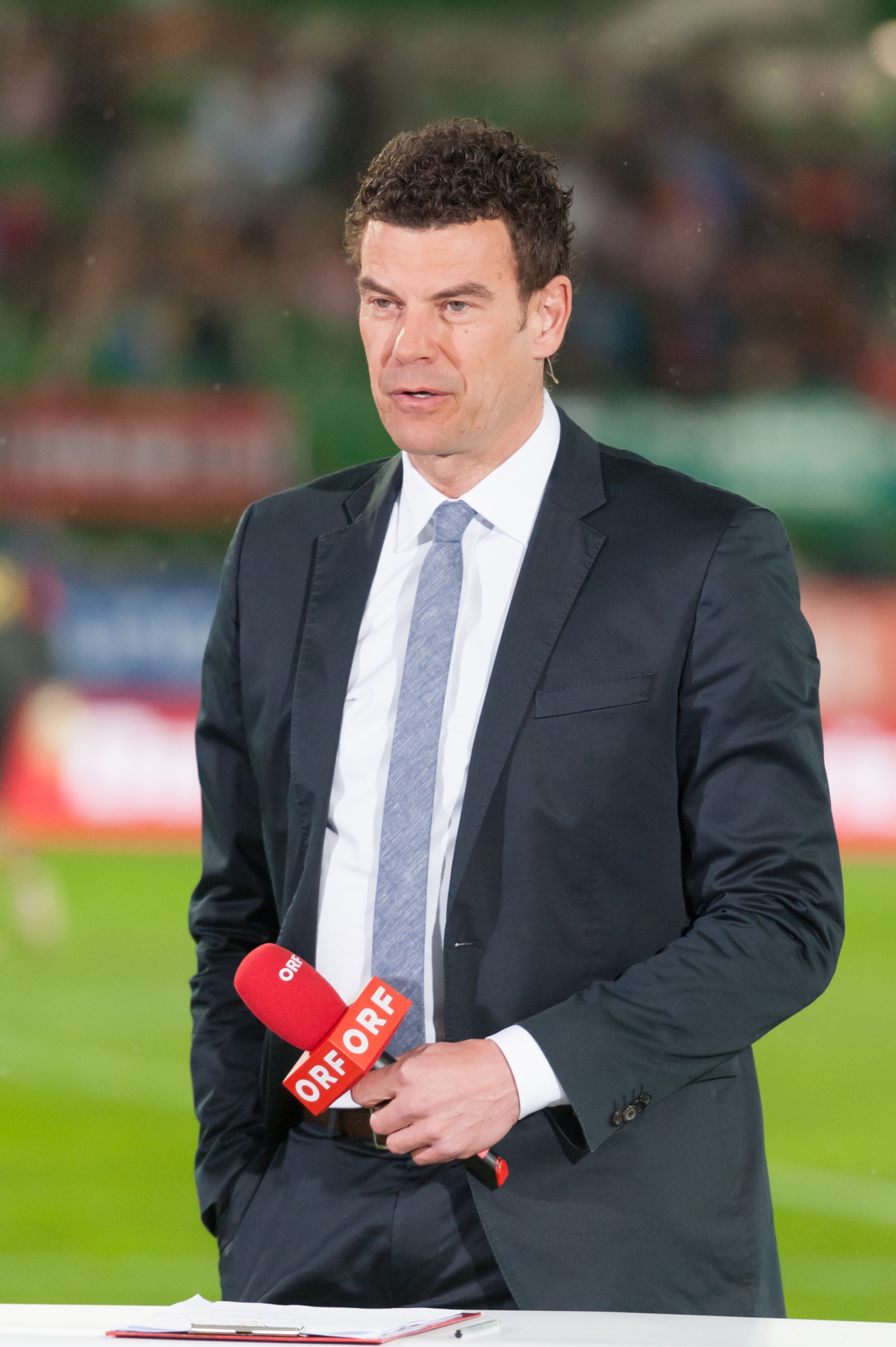 International friendly Austria vs. Bosnia and Herzegovina, 2015-03-31, Vienna